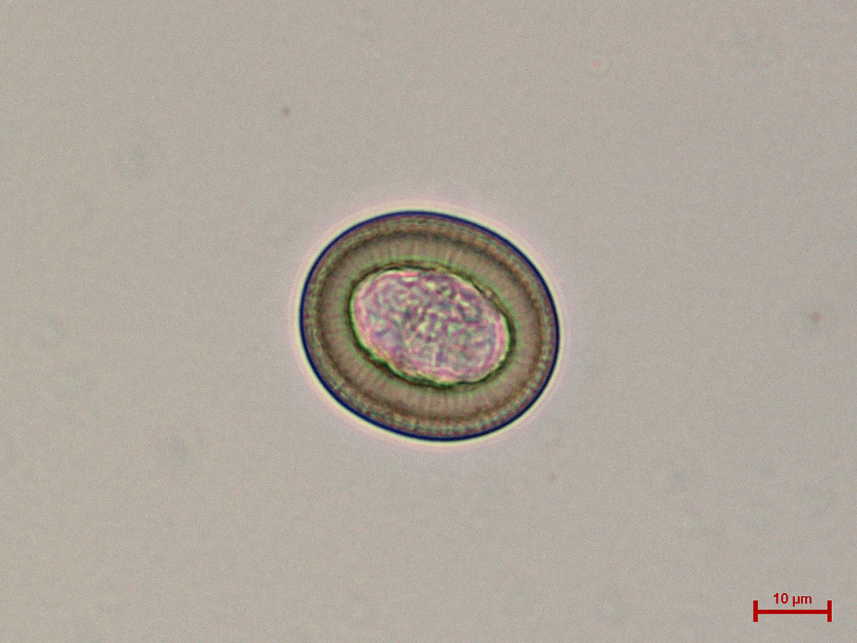 Taenia saginata - the inner embryophore is radially striated, with a visible embryo (oncosphere) in the centre.